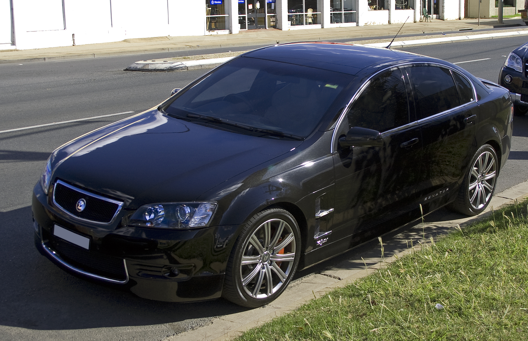 HSV Senator (E Series) Signature